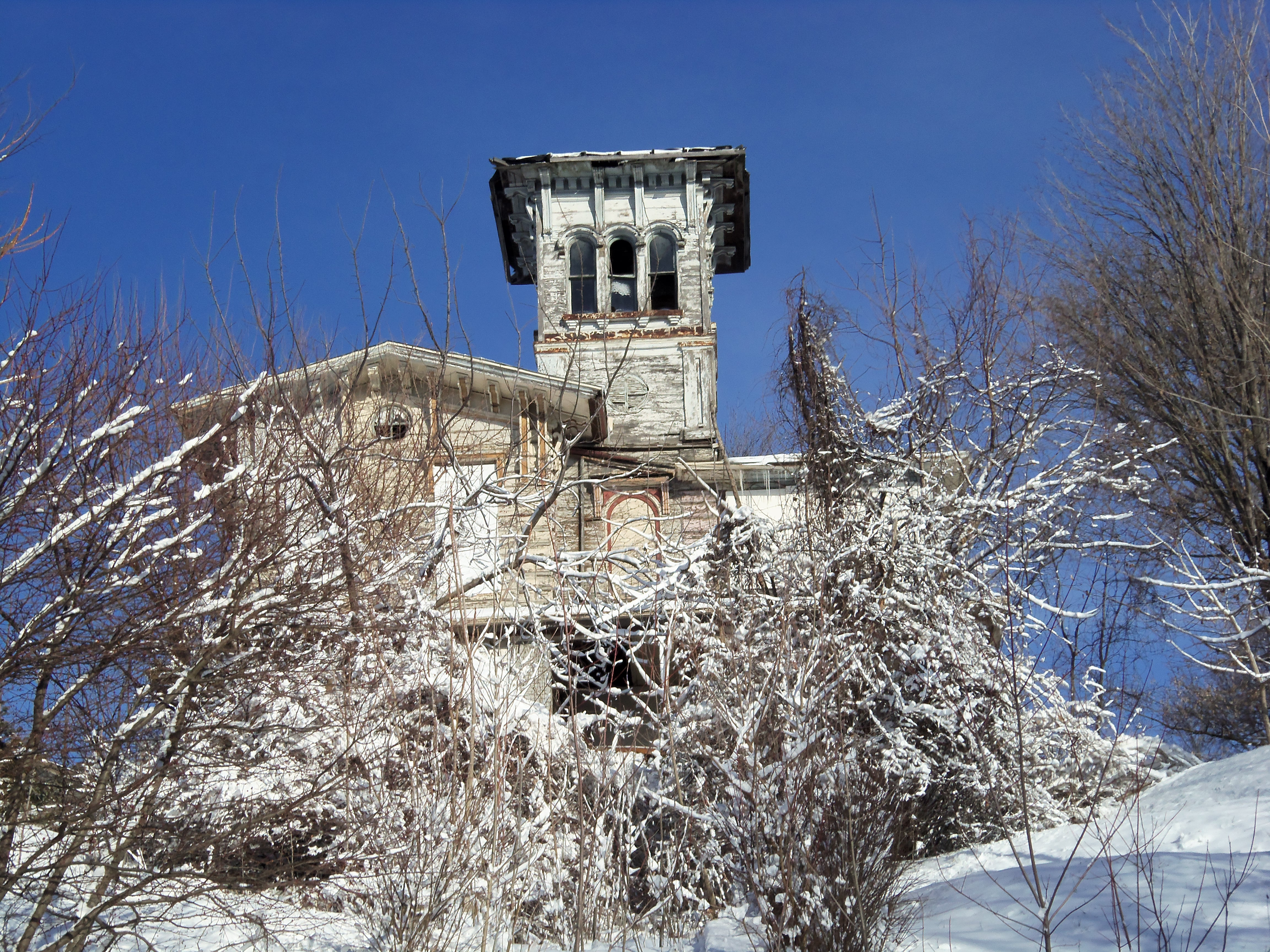 The Lambert-Iles-Petersen House in Davenport, Iowa. It is listed on the Davenport Register of Historic Properties.